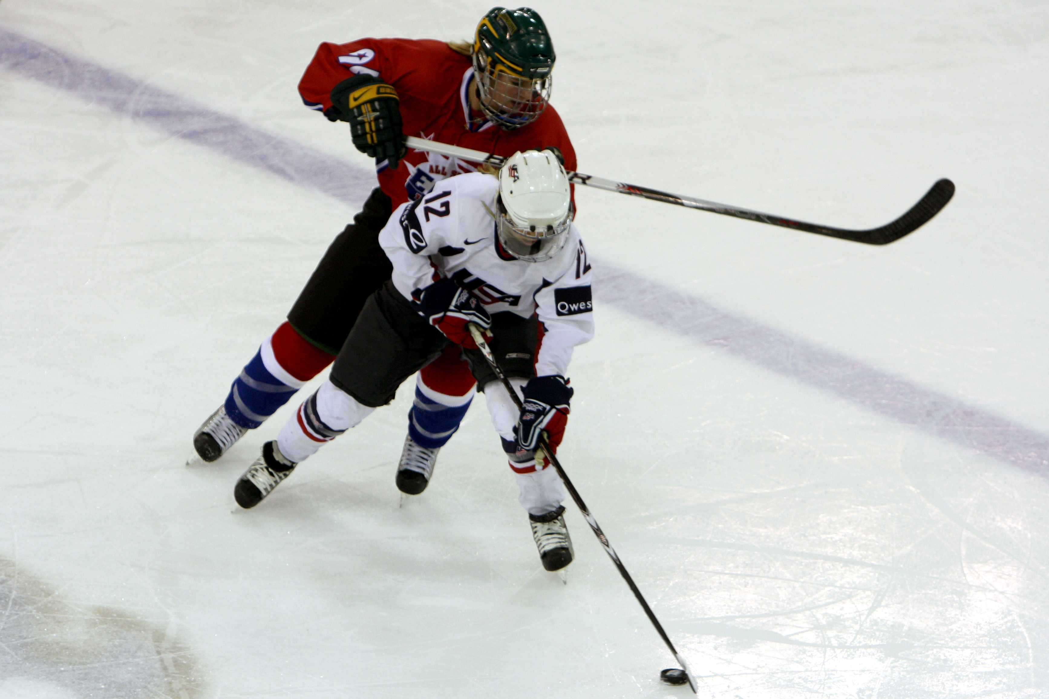 United States forward Jenny Potter in a game against the ECAC All-Stars on January 3, 2010.